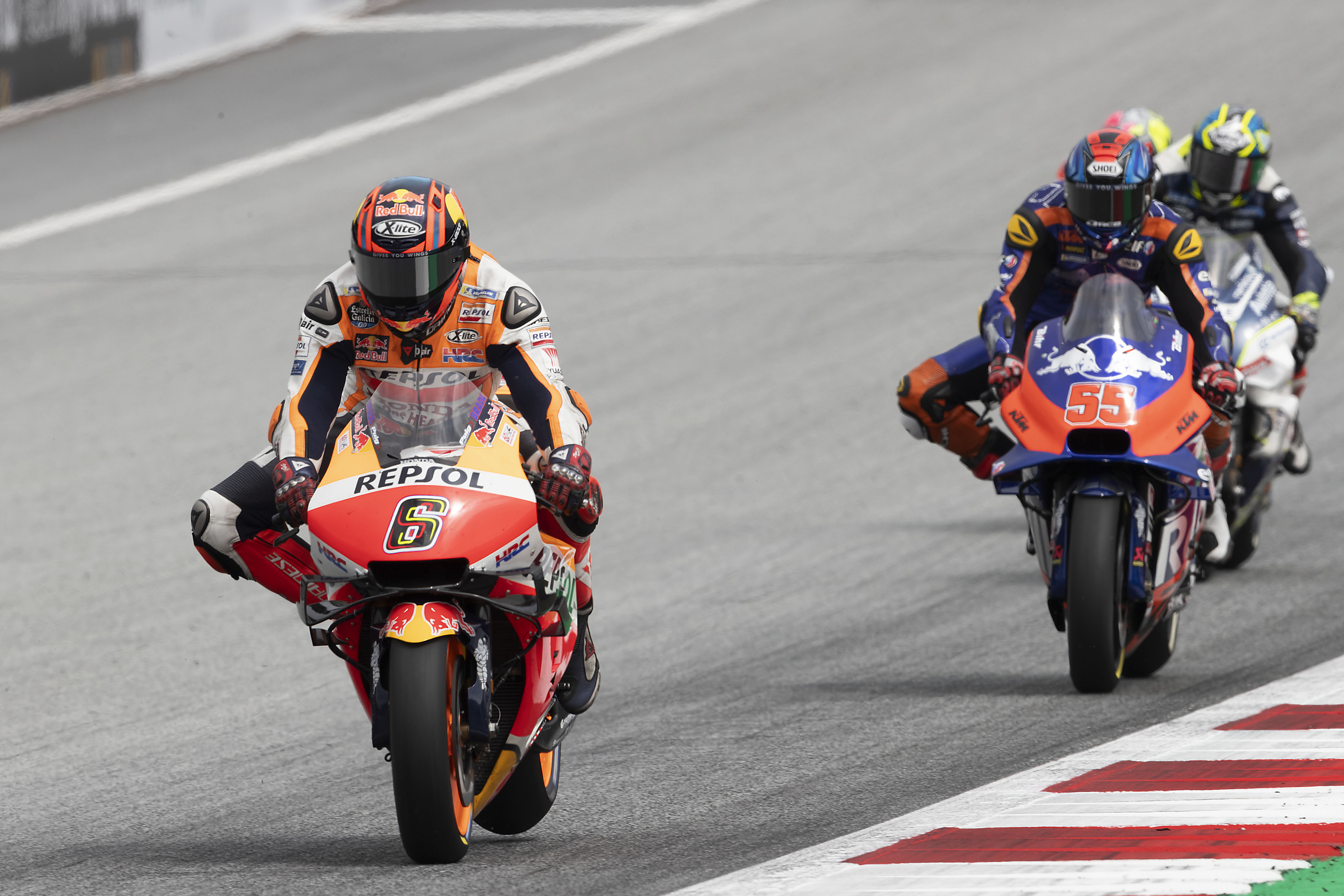 Stefan Bradl, riding his Repsol Honda, being followed by the Red Bull Tech 3 KTM of Hafizh Syahrin and the Reale Avintia Ducati of Karel Abraham at the 2019 Austrian Grand Prix.